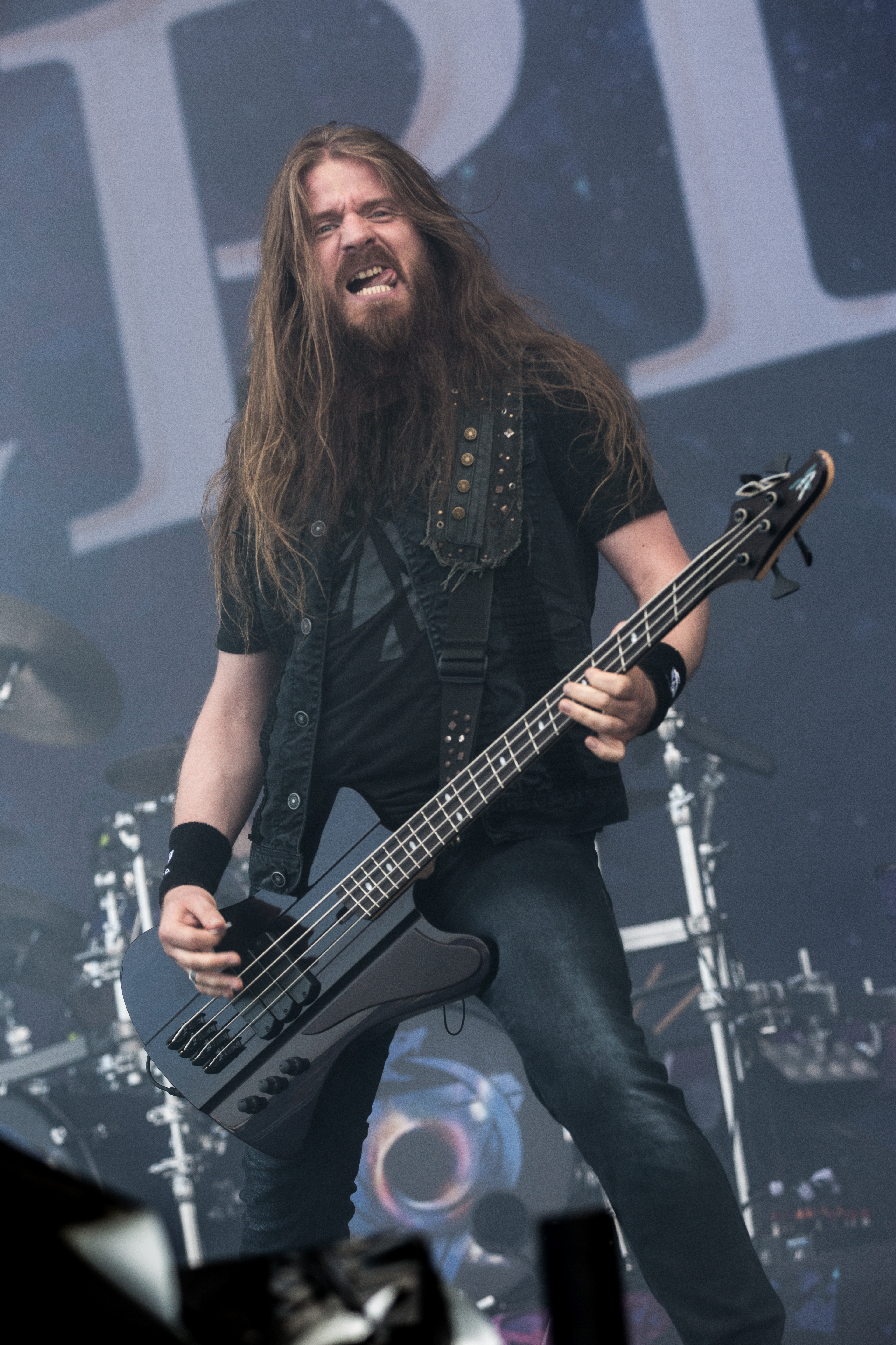 The Dutch symphonic metal band Epica at the Summer Breeze Open Air 2017 in Dinkelsbühl/Germany.